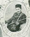 Portrait of IMARO member Delcho Kotsev from harmanli